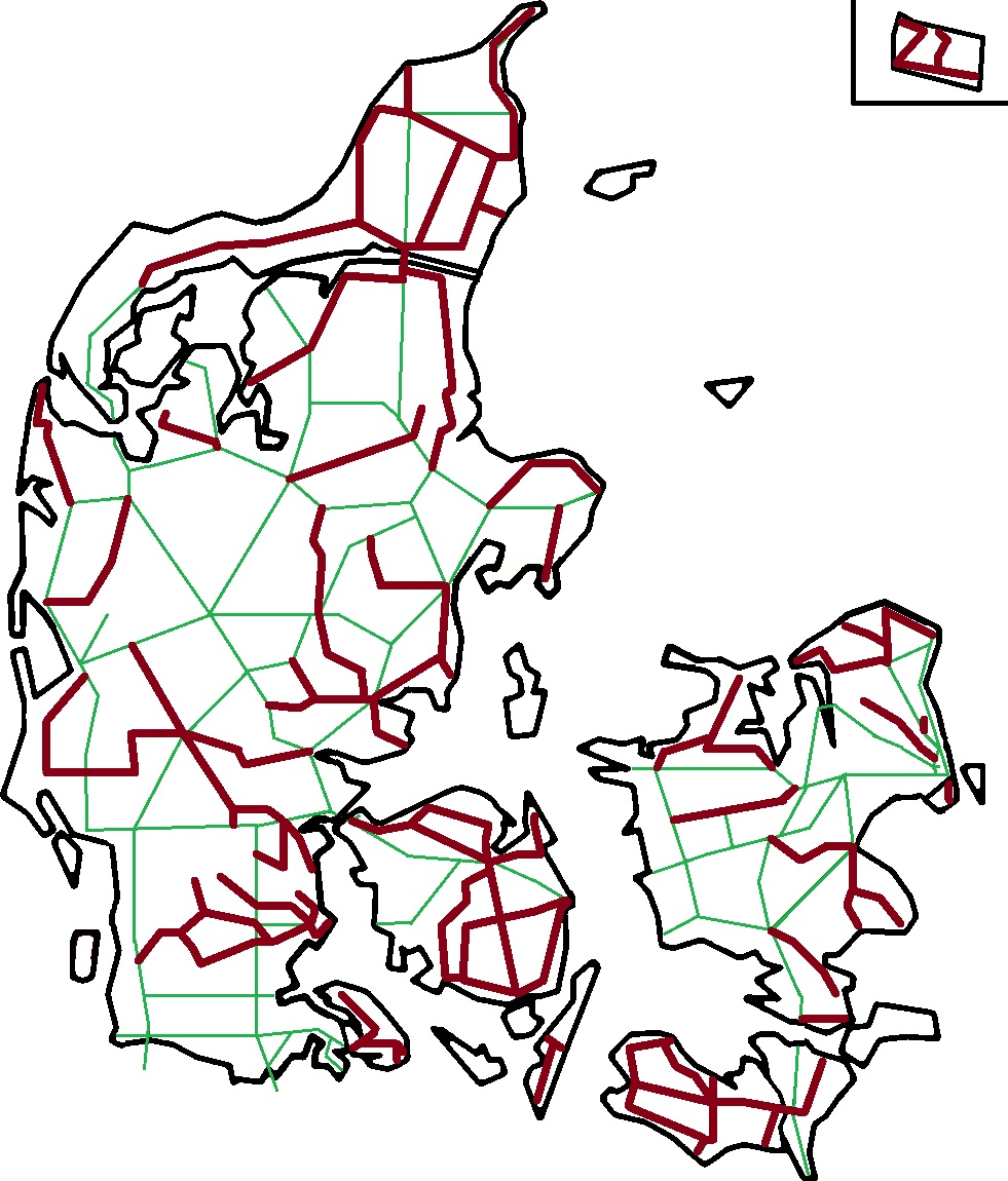 Map of railways in Denmark with private railways in brown.